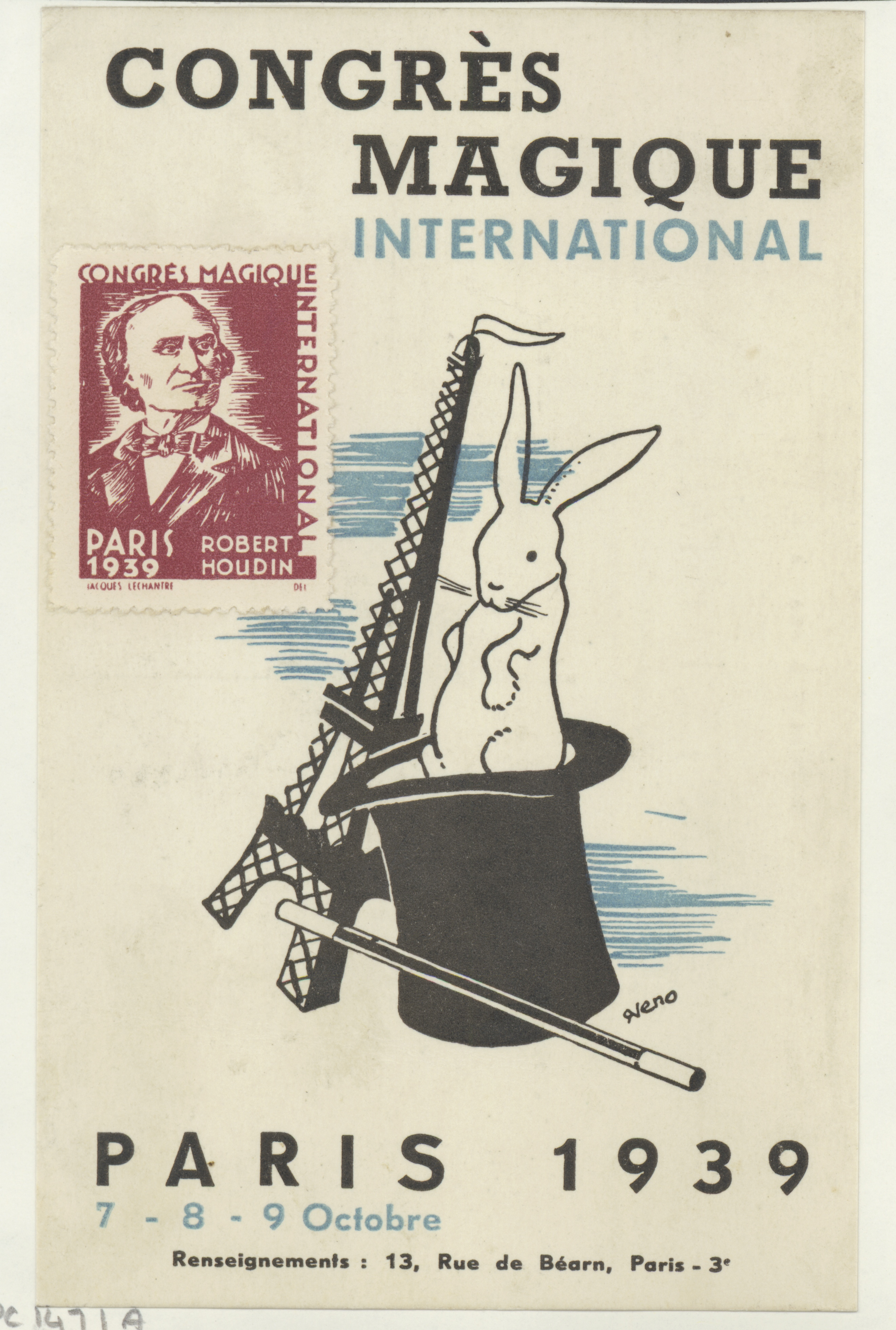 Postcard advertising a magicians congress in Paris 1939. Drawing of rabbit, a top hat, a magic wand and the Eiffel Tower. A stamp bearing the image of Robert Houdin u.l.